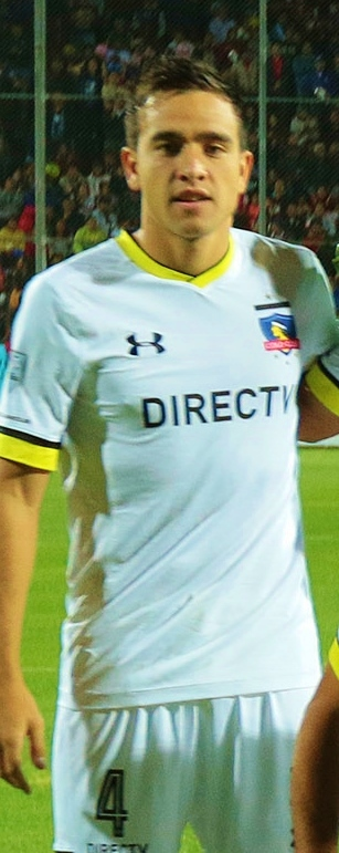 Matías Zaldivia